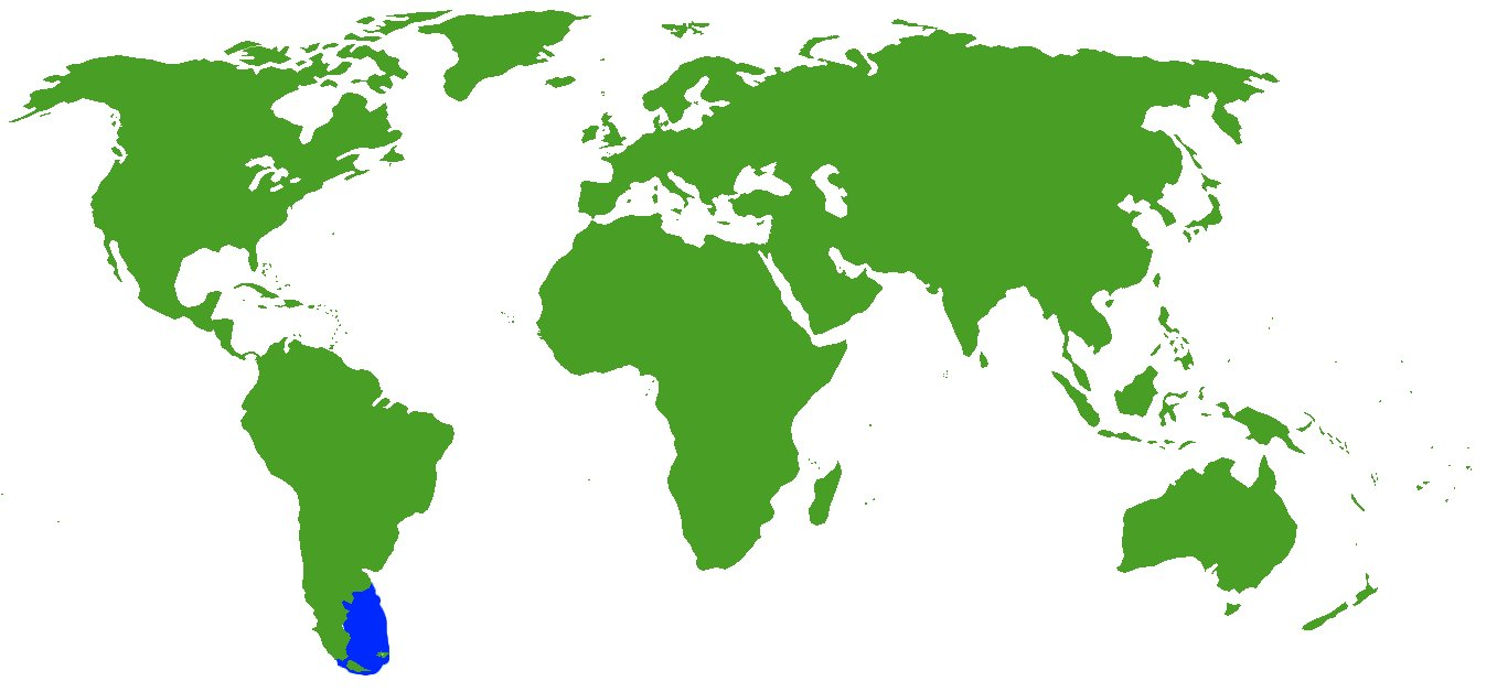 Range map of Enteroctopus megalocyathus